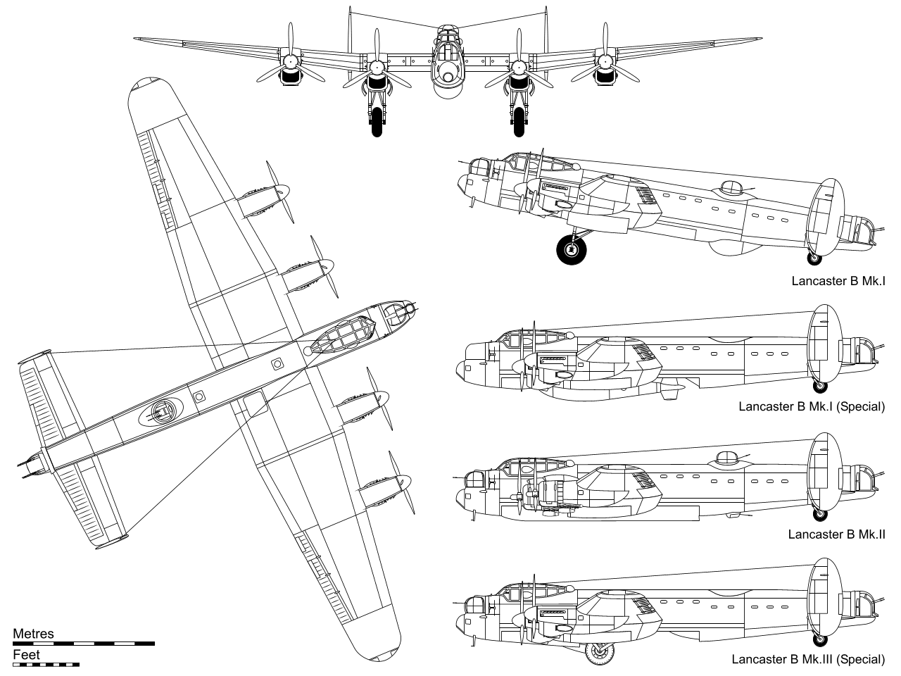 orthographic projection of Avro Lancaster